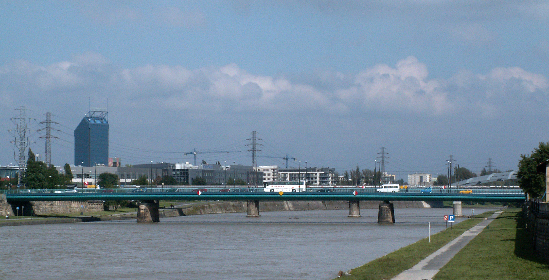 Powstancow Slaskich bridge,Krakow,Poland